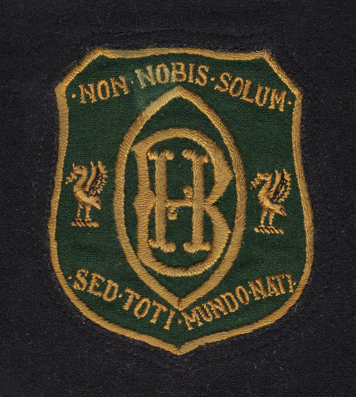 Picture of an original 1930s Blackburne House Girls' School blazer badge. Opened in 1844, Blackburne House was the first girl's school in Liverpool. It closed in 1986 but the buidling is still used as a training & resource centre.